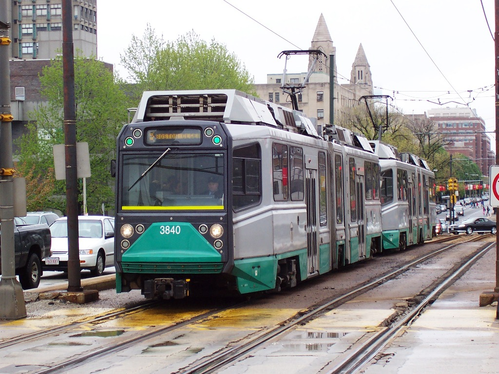 MBTA Green Line "B" train bound for Boston College, is stopped at a red light in the median of Commonwealth Avenue at Carlton Street, between the BU Central and BU West stops.